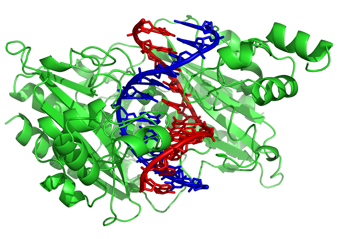 By Richard Wheeler (Zephyris) 2007. Image of EcoRV homodimer in complex with a DNA substrate. From .